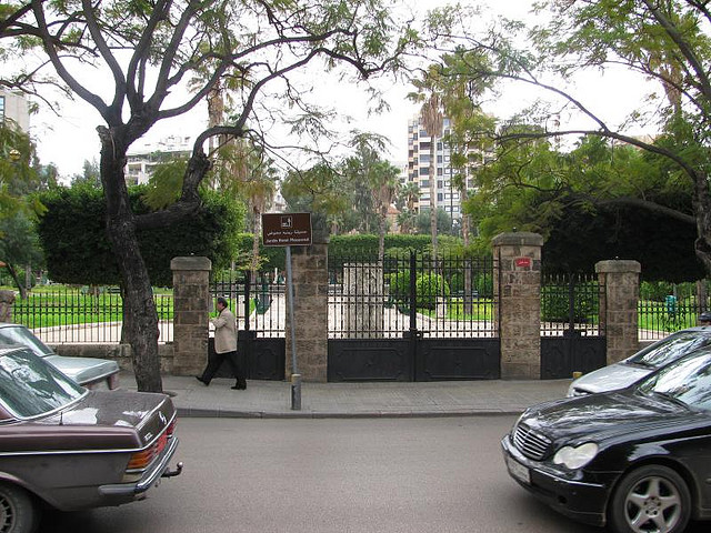 René Moawad Garden, one of the few public parks in Beirut.